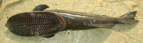 Remora australis collected in Karachi harbour, Pakistan.